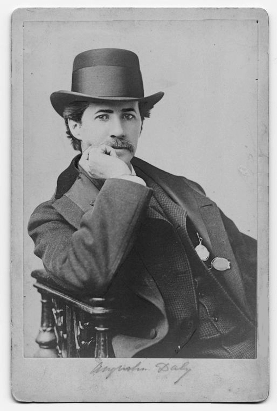 Augustin Daly (1838-1899)